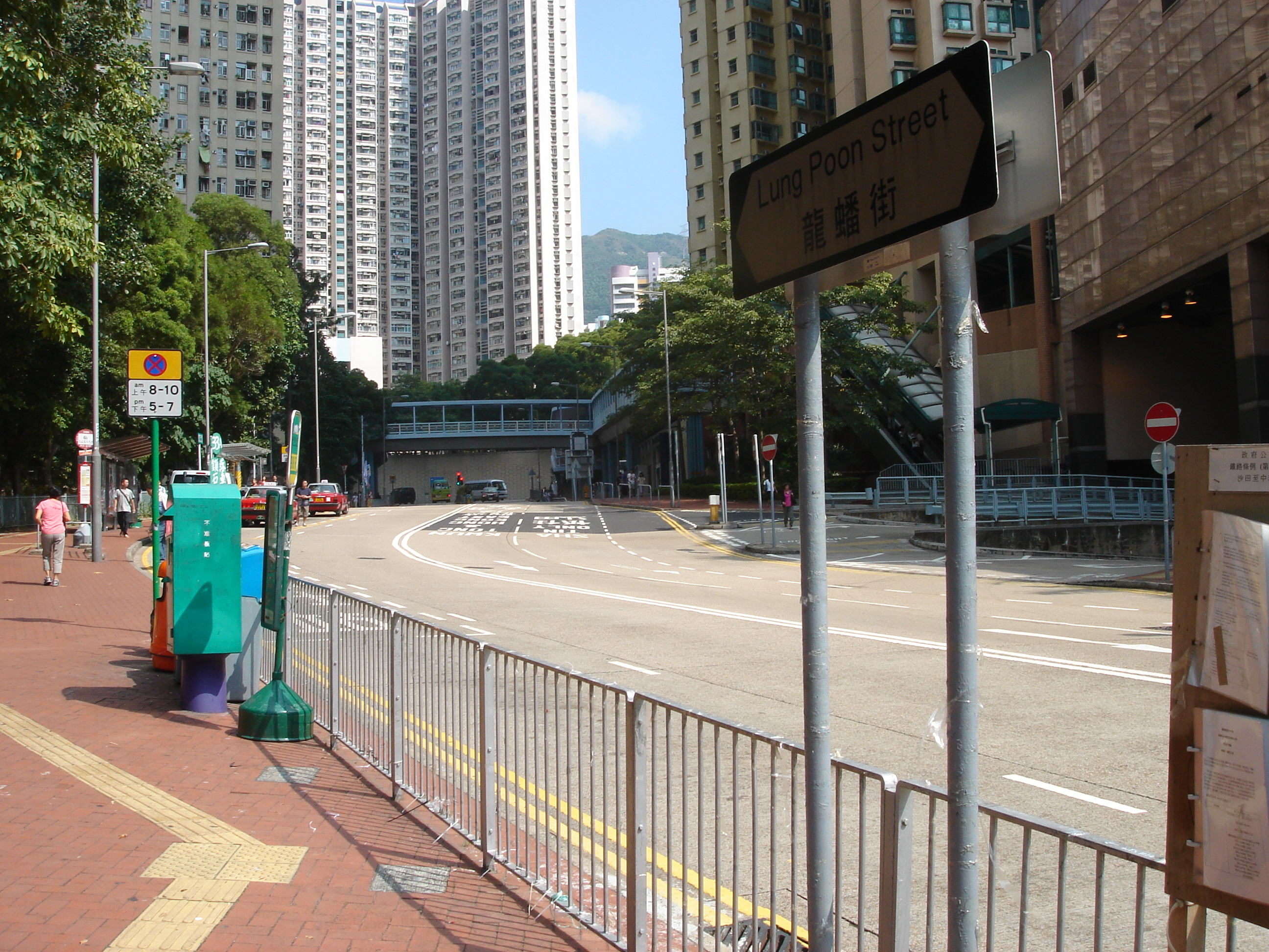 Lung Poon Street, Diamond Hill, Kowloon, Hong Kong